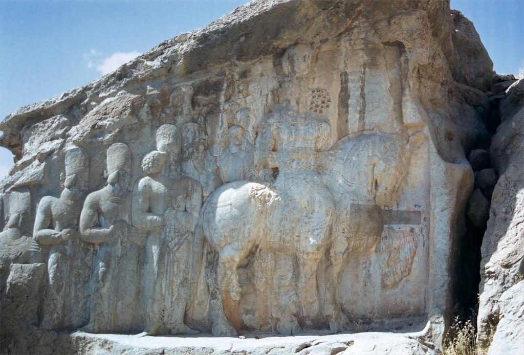 Sassanid relief at Naqsh-e Rajab, Fars, Iran ; 3rd century CE. Relief showing king Shapur I on his charger, followed by his sons and nobles.